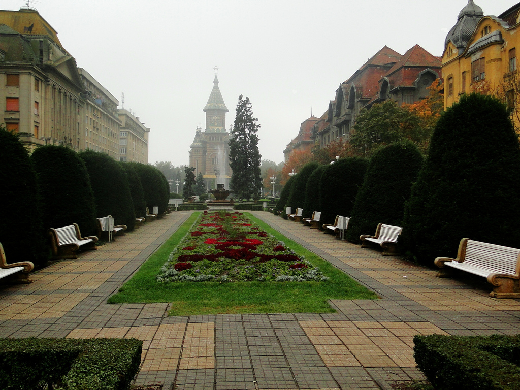 Timişoara, Victory Square.